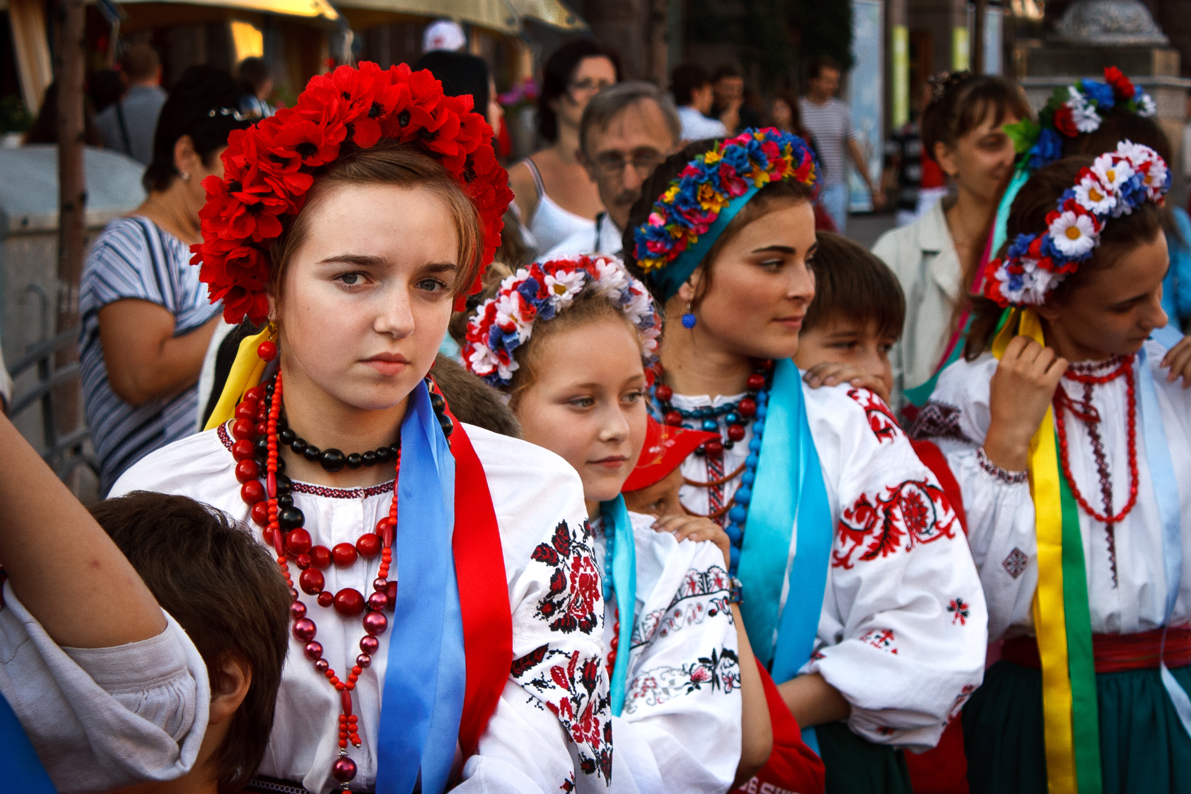 Ukrainian girls wearing vyshyvankas at the Independence Day celebration.